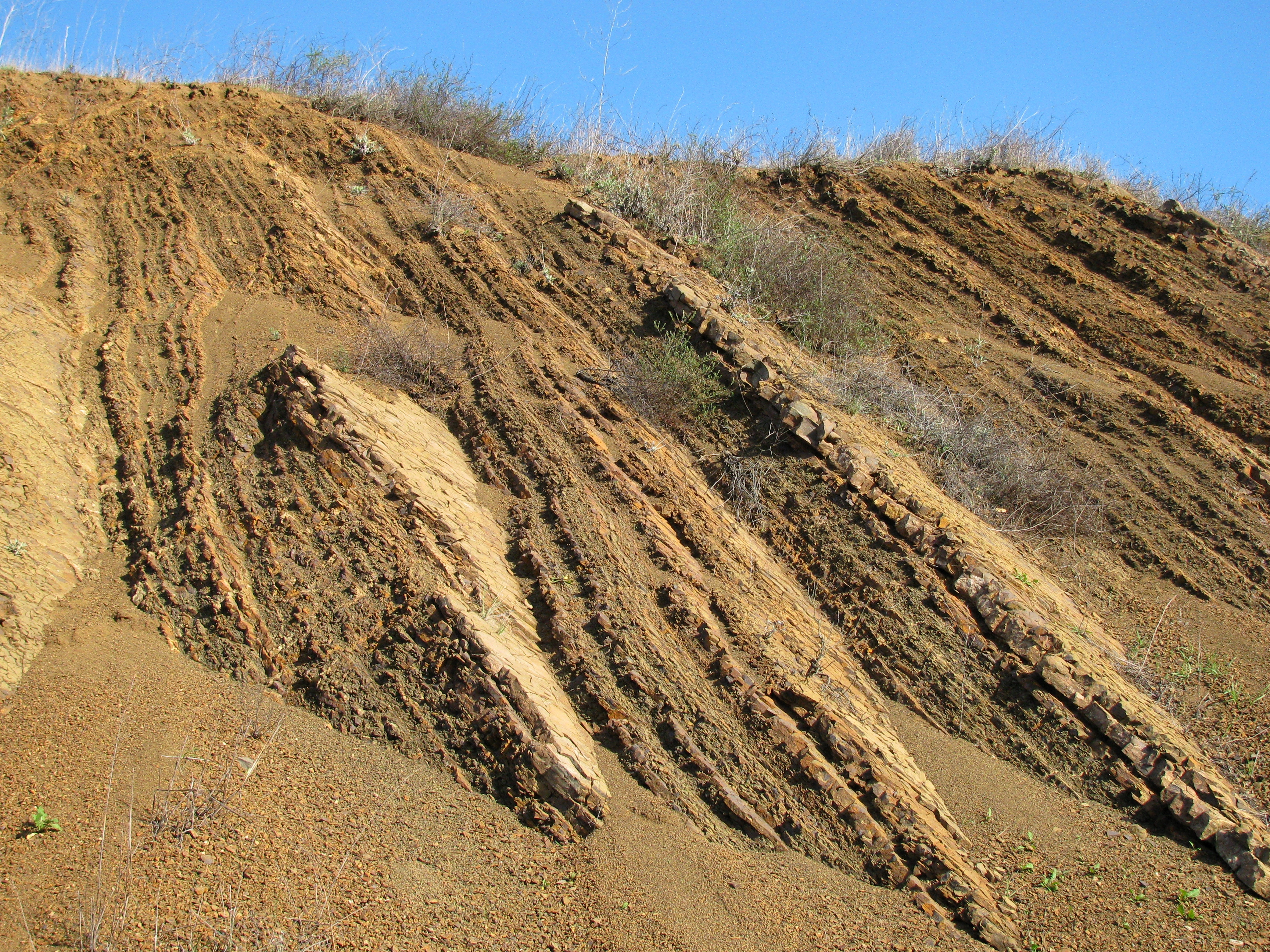 Cretaceous-age Espada Formation. Outcrop on Jalama Road, Santa Barbara County, California; photo by self, GFDL/equiv.